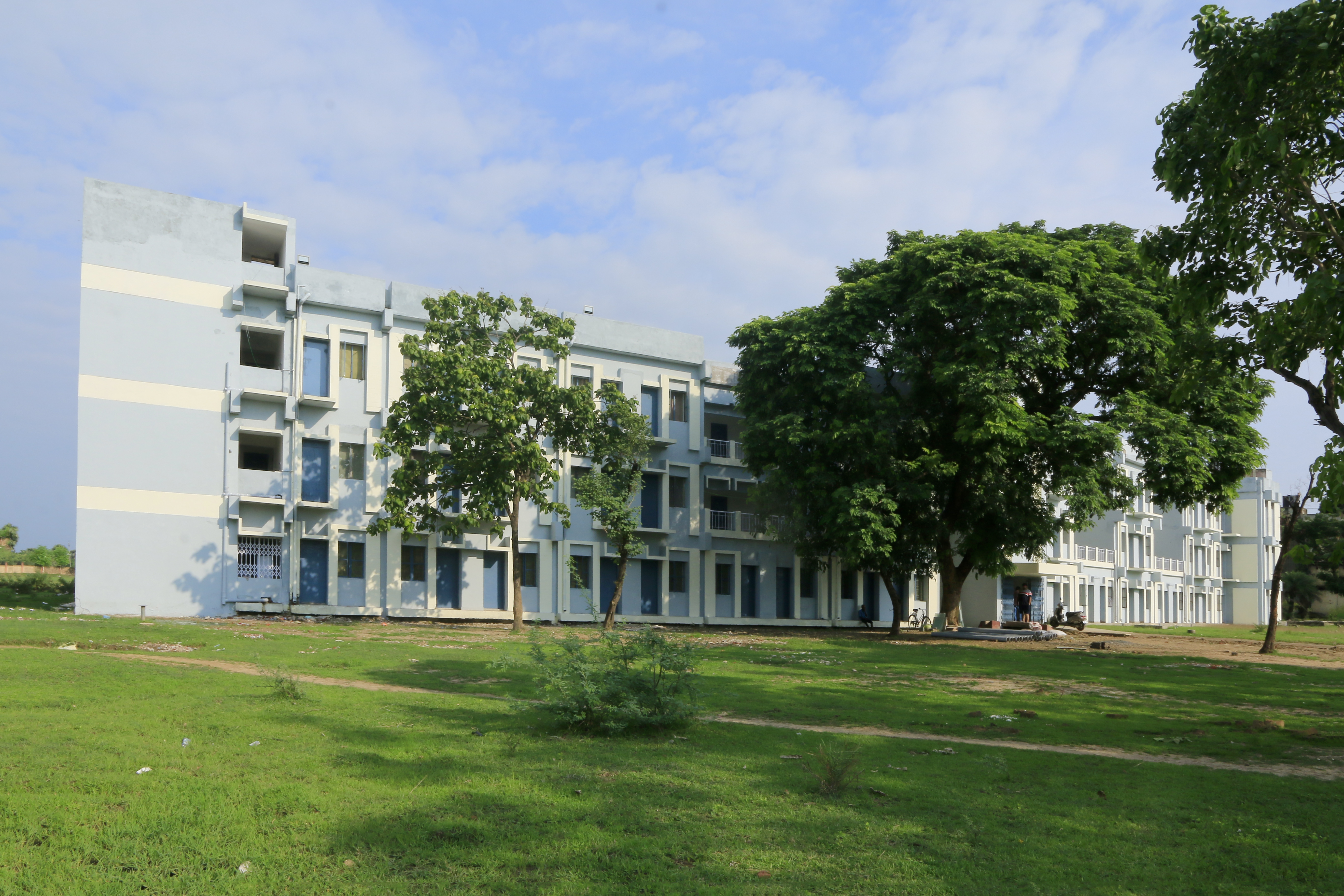 Student Hostel, IIM Bodhgaya